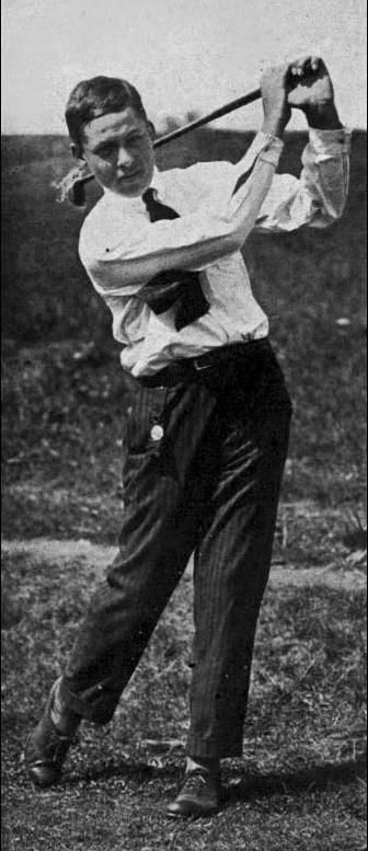 Bobby Jones at the age of 14, playing in the 1916 U.S. Amateur Championship (his first USGA tournament appearance) at the Merion Golf Club, following the first qualifying round. The original caption read: "At the end of the morning round, Robert T. Jones, Jr., the Georgia State champion, whose play created such a sensation in the amateur championship."